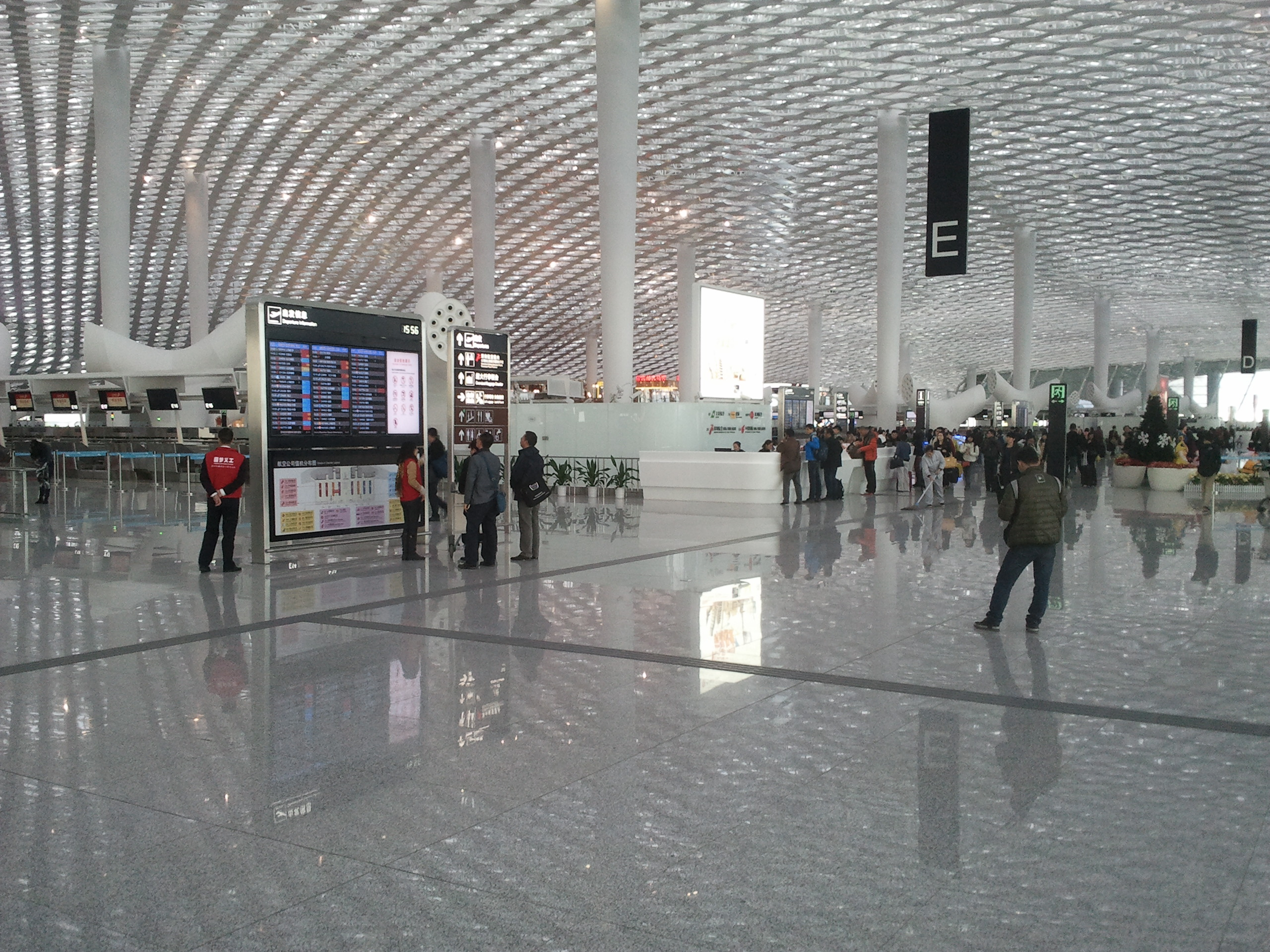 Shenzhen Baoan International Airport New Terminal interior